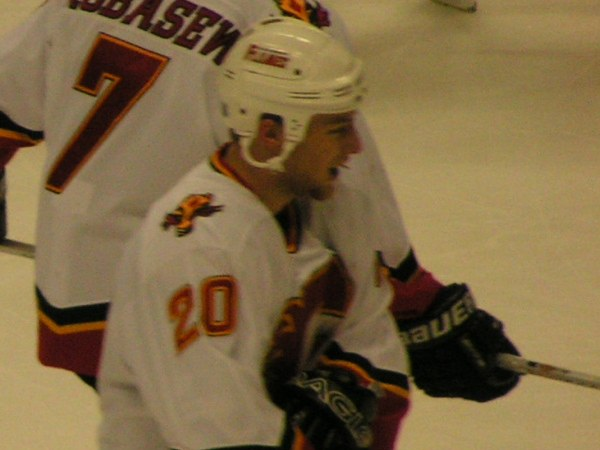 Lynn Loyns while warmup in Anaheim